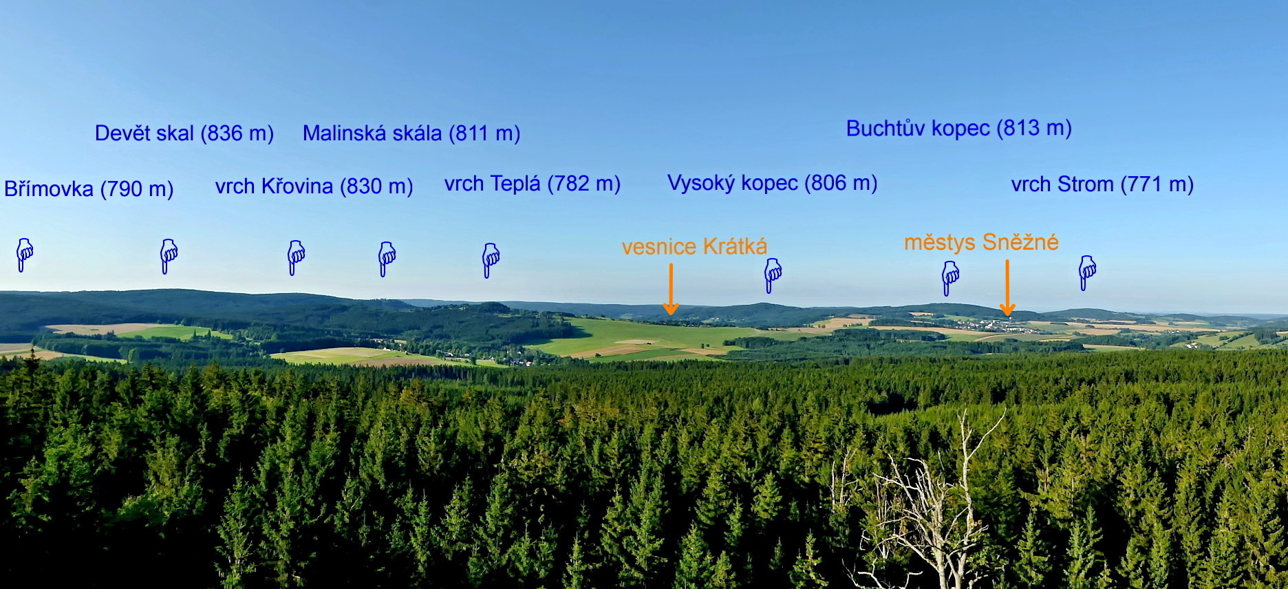 "Pasecká" Rock is a rock formation in the geomorphological district "Pohledeckoskalská" Highlands. The top part consists of three rock blocks with the czech names "Vyhlídka, Omšelý hřeben, Pernštejn". Rocks are separated by deep rock crevices. On the rock block called Vyhlídka (819 m above sea level) there is a lookout point. A blue tourist route of the Club of Czech Tourists leads to the top, view with the peaks of Žďárské vrchy. A panoramic view from the "Pasecká" Rock, from a rock block "Vyhlídka". In the photo from left are the tops with czech names: " Břímovka, Devět skal, Křovina, Malinská skála a Teplá" in the geomorphological district "Devítiskalská" Highlands and the hills "Vysoký kopec, Buchtův kopec a Strom" in the geomorphological district "Pohledeckoskalská" Highlands. Photo-location: Czechia, "Vysočina" Region, small hamlet "Studnice", part of town "Nové Město na Moravě, "Pohledeckoskalská" Highlands, view from the "Pasecká" Rock.